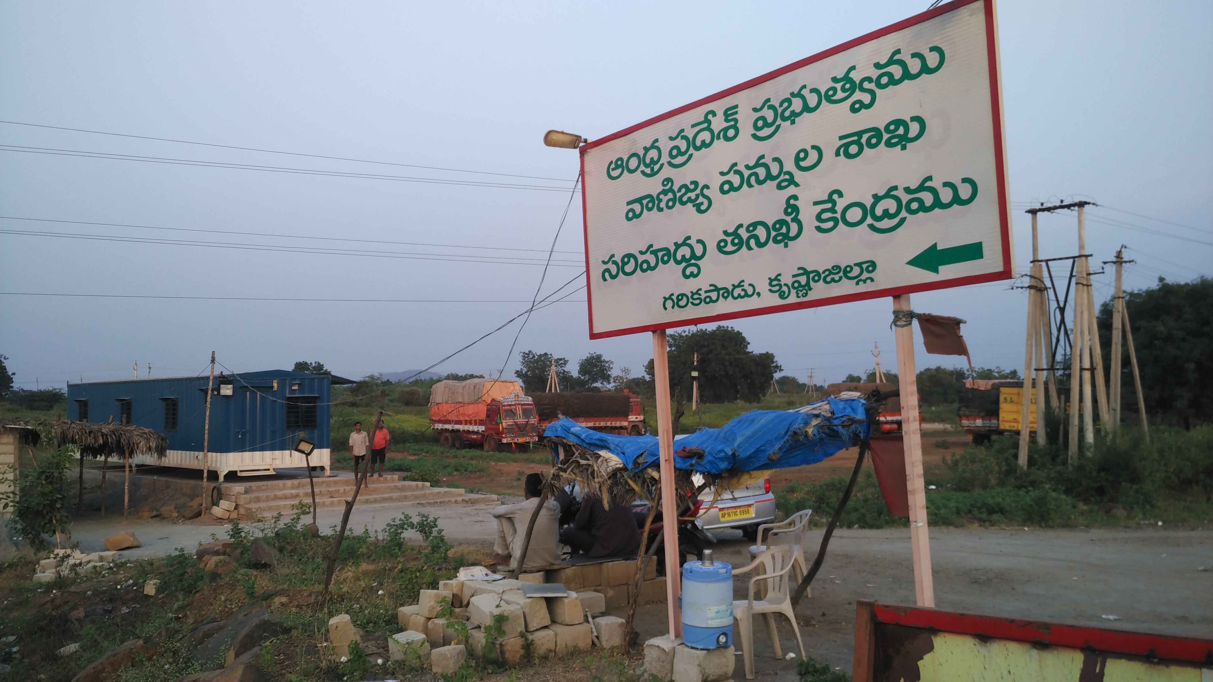 Border Check Post on the border between the States of Andhra Pradesh and Telangana (BCP_incoming) at Garikapadu Village of Krishna District. This Border Check Post was established at Garikapadu village bordering the A.P state by the A.P Commercial Taxes Department for effective vigilance upon transport of goods between the two states.